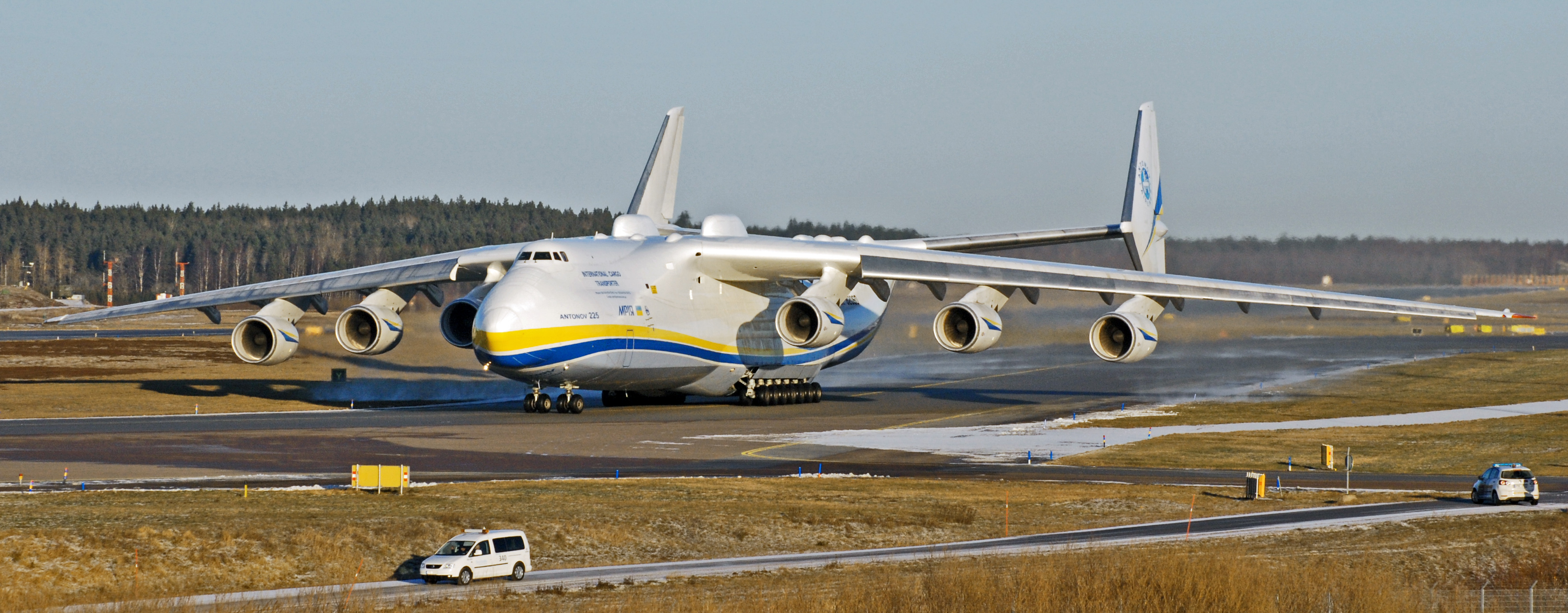 Antonov An-225 at Arlanda airport, Stockholm